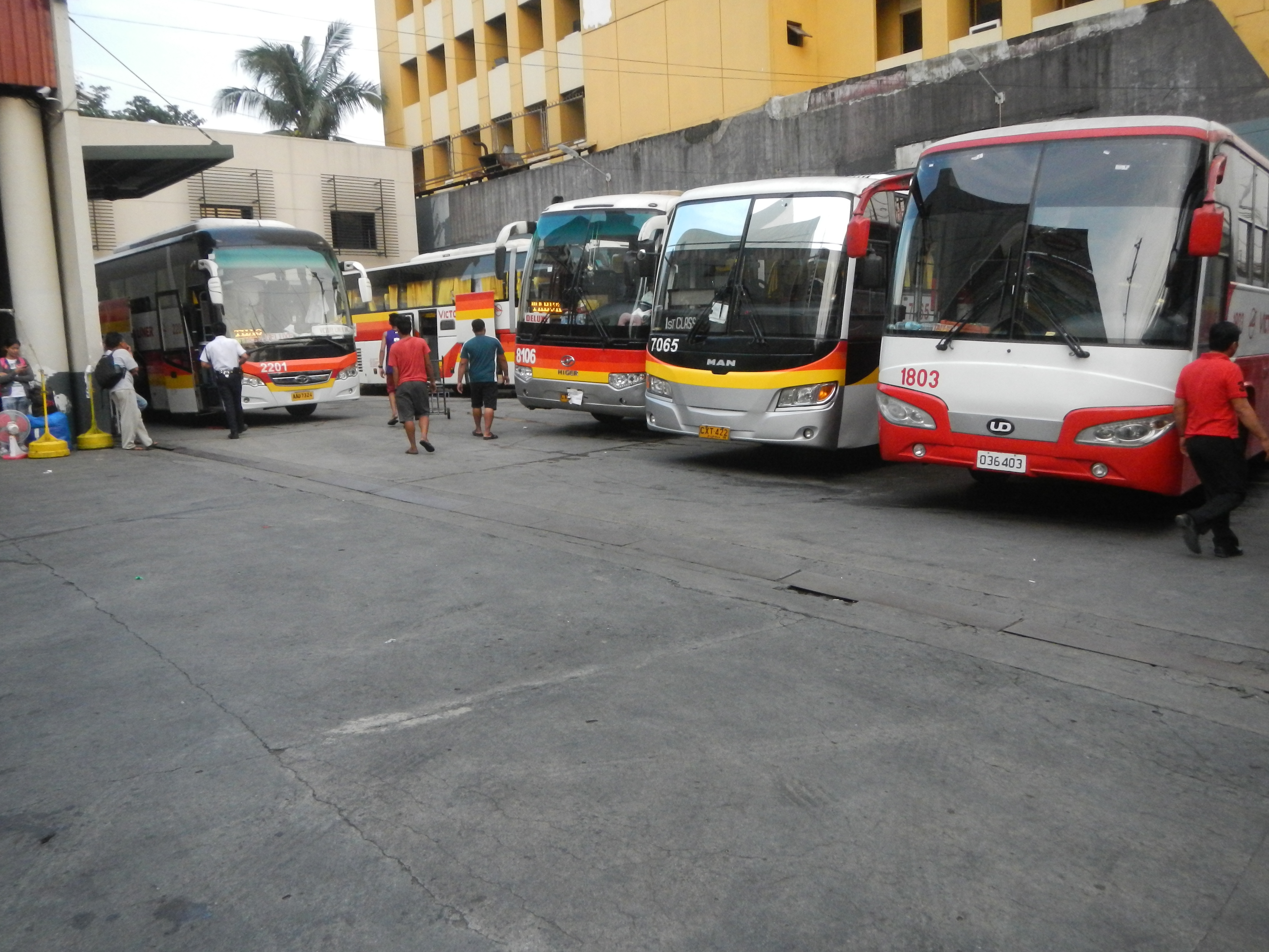 East Avenue corner NIA Road Pinyahan, along East Avenue corner V Luna Avenue, Land Transportation Office in the List of barangays of Metro Manila, Legislative districts of Quezon City District II, Barangays of Quezon City Pinyahan, District IV, Diliman, Quezon City; along EDSA List of roads in Metro Manila (Note: Judge Florentino Floro, the owner, to repeat, Donor Florentino Floro of all these photos hereby donate gratuitously, freely and unconditionally all these photos to and for Wikimedia Commons, exclusively, for public use of the public domain, and again without any condition whatsoever).